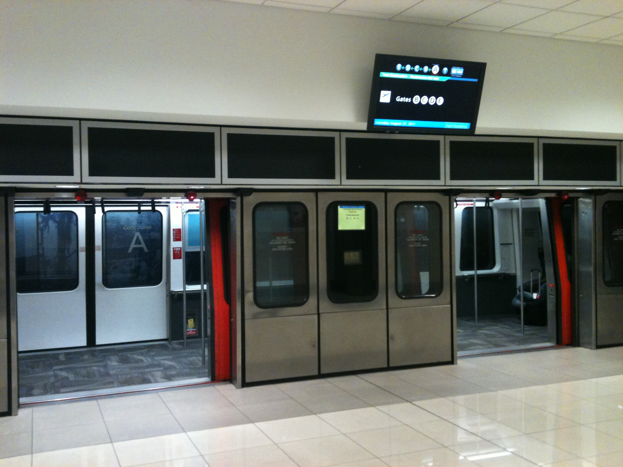 Hartsfield Jackson Atlanta Airport People Mover